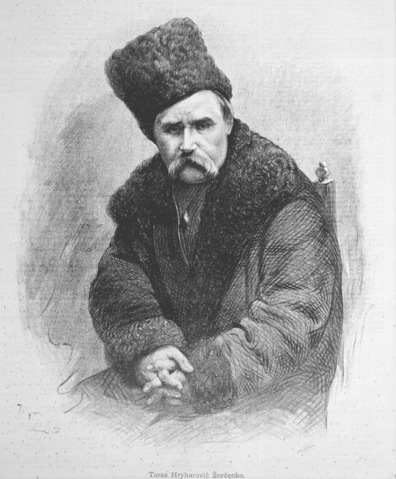 Taras Hryhorovyč Ševčenko